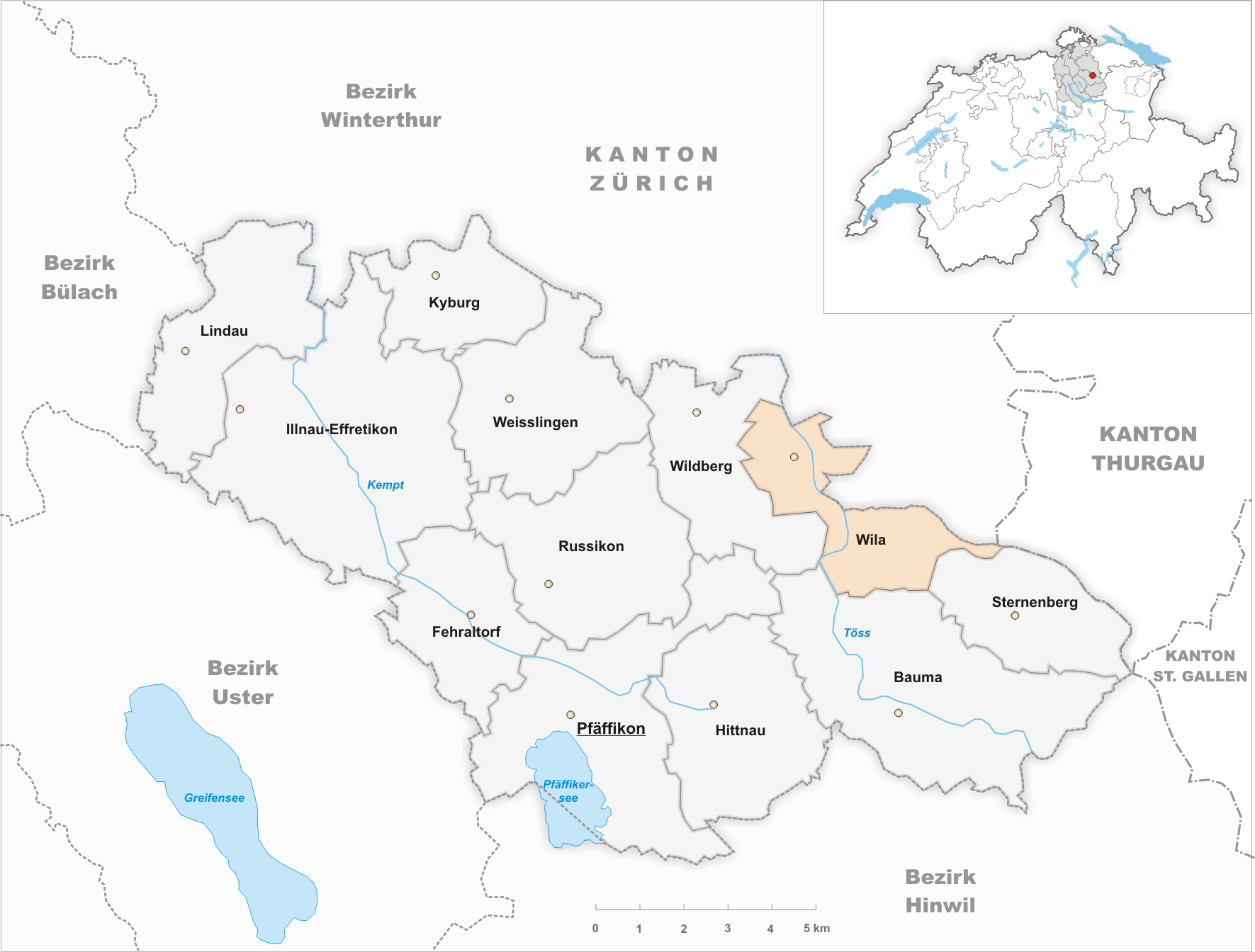 Municipality Wila